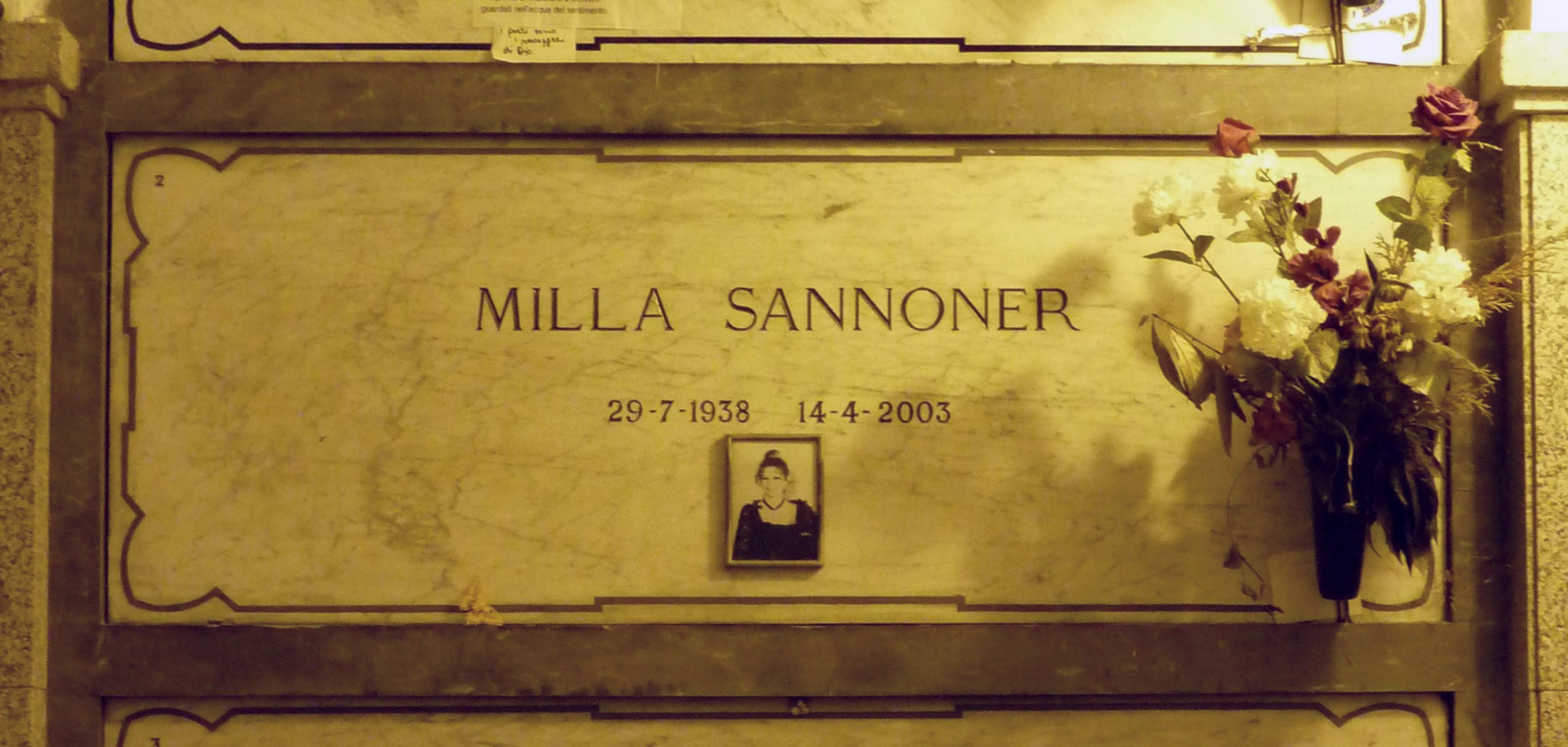 The grave of Italian actress Milla Sannoner at the Monumental Cemetery of Milan, Italy.